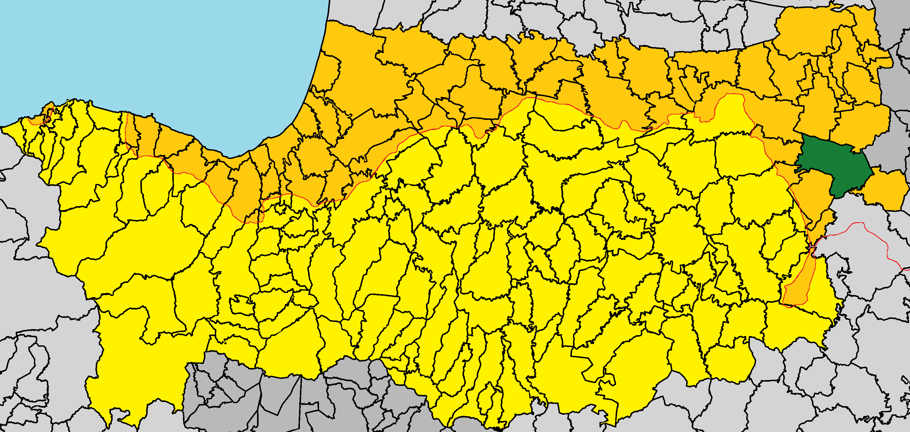 Tymbou in Nicosia District (de jure).